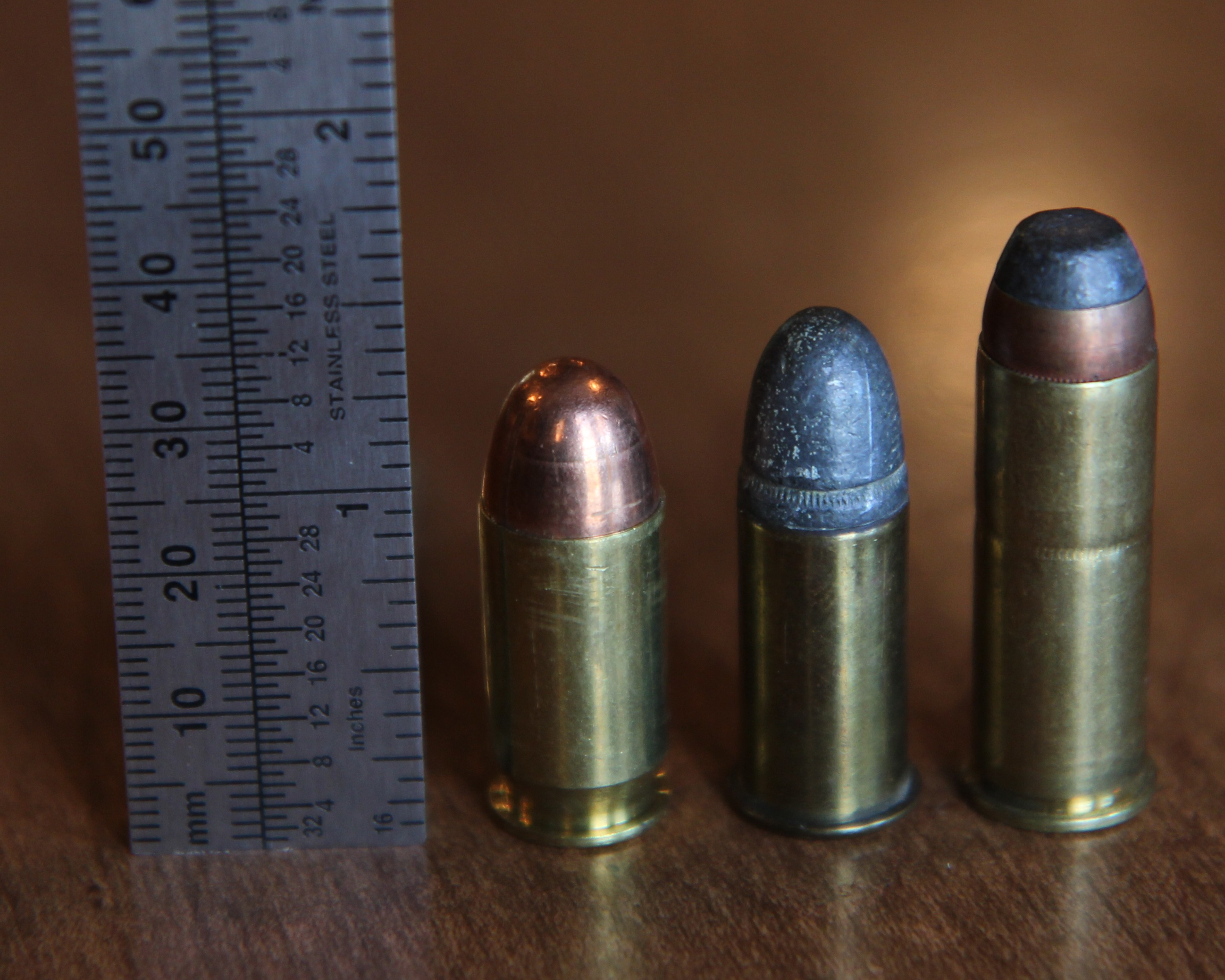 .44 Smith & Wesson American (Center) next to a metric/imperial ruler and other common cartridges for comparison. .45 ACP (left). .44 Remington Magnum (Right).